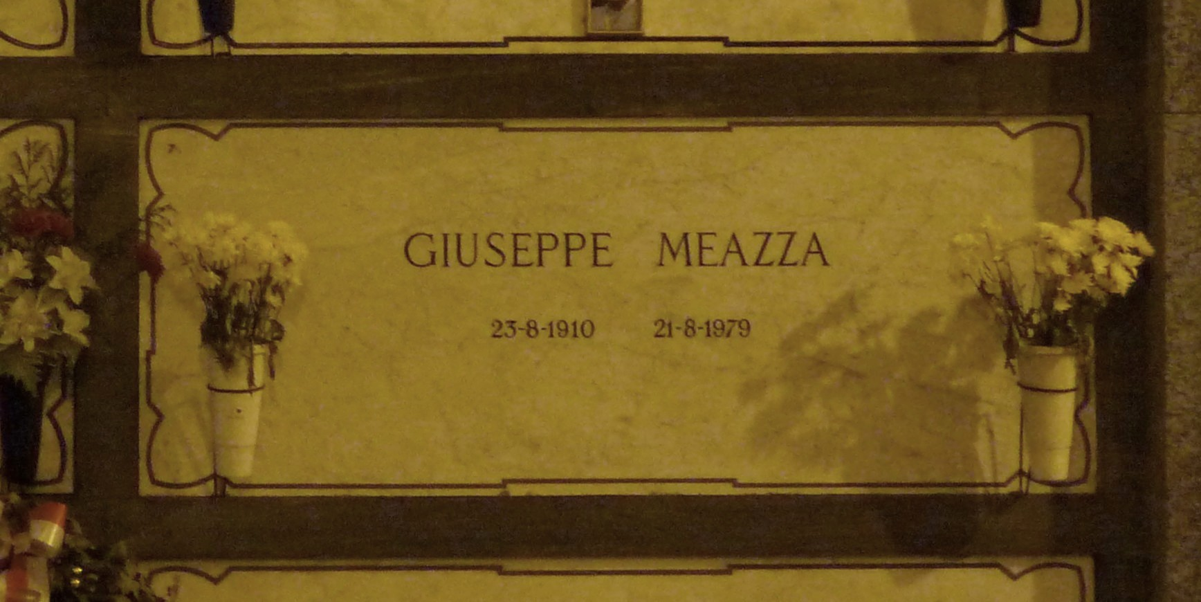 The grave of Italian footballer Giuseppe Meazza at the Monumental Cemetery of Milan, Italy.